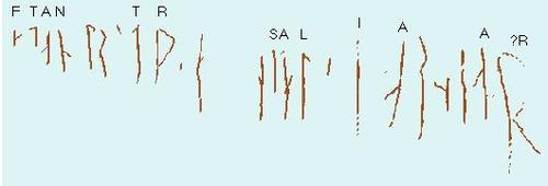 Copy and transcription of the Halfdan inscription. - Wikipedia: Runic inscriptions in Hagia Sophia